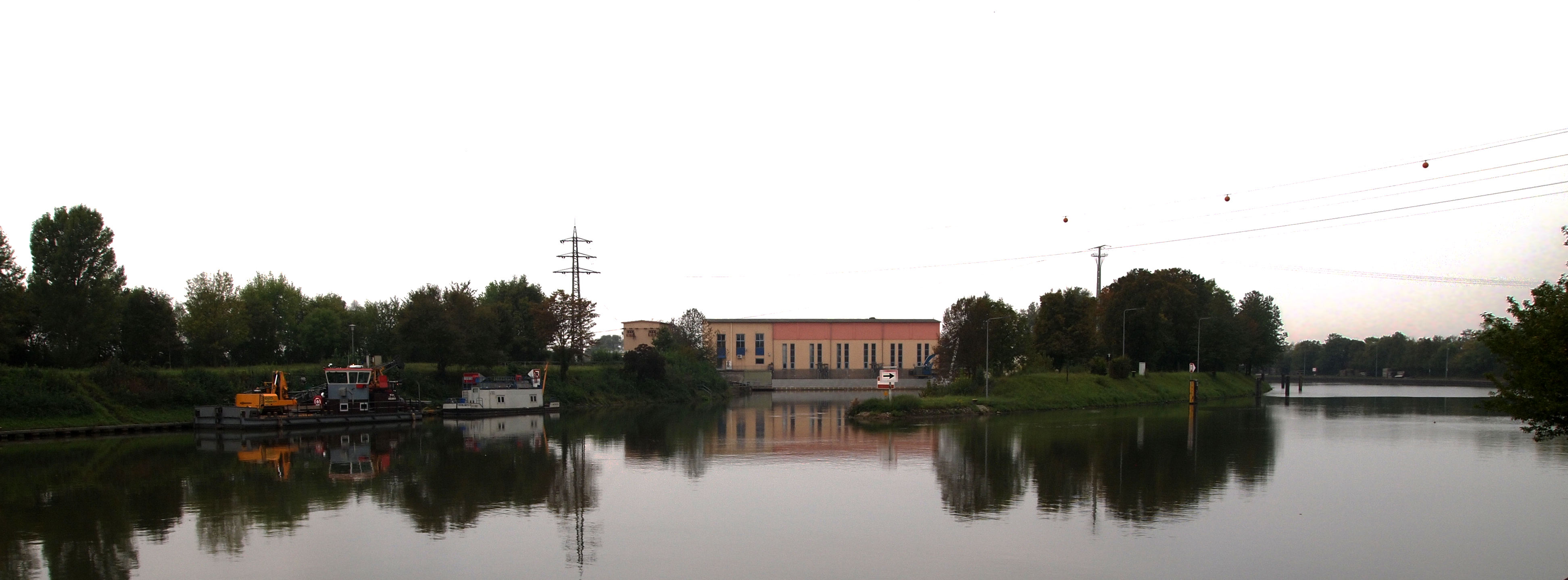 Schwabenheim barrage, the end of the Wieblingen canal, parallel to the Neckar river. view from upstream on the canal.